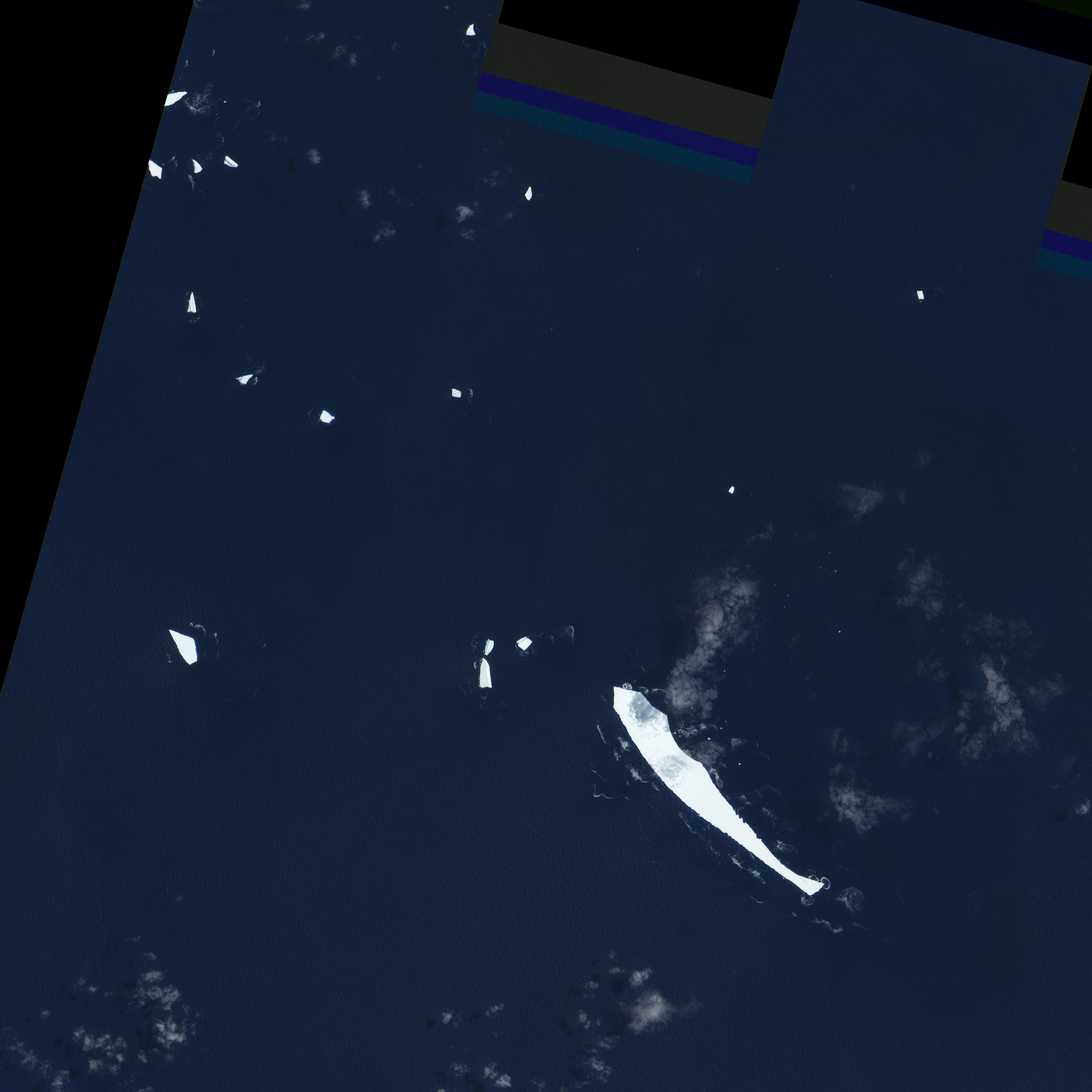 The third-largest remaining piece of the slowly disintegrating B17-B iceberg, which broke off Antarctica’s Ross Ice Shelf a decade ago, resembles a cartoon drawing of a whale in this natural-color image from the Advanced Land Imager (ALI) aboard NASA’s Earth Observing-1 (EO-1) satellite. The image was captured on December 30, 2009. The berg drifted around the Southern Ocean for years before heading northward into the southern Indian Ocean, southwest of Australia. Further Reading B17B iceberg slowly breaking up NASA Earth Observatory image created by Jesse Allen, using EO-1 ALI data provided courtesy of the NASA EO-1 team. Caption by Rebecca Lindsey. Instrument: EO-1 - ALI